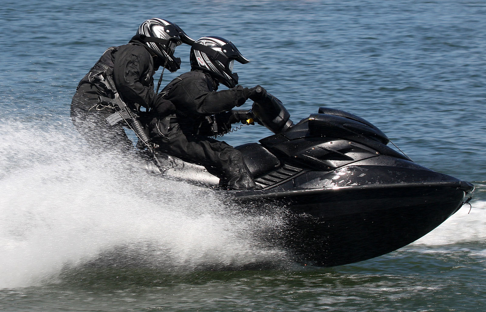 Two commando soldiers from Unit Lawan Keganasan (Anti Terror) 11 Rejimen Gerak Khas of Malaysian Army using jet ski during a demonstration at the Tasik Banding, Perak Darul Ridzuan, Malaysia. One of them carrying the Colt M4A1 Carbine.